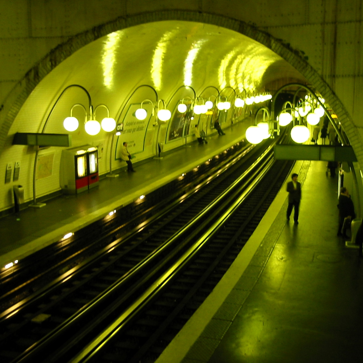 The metro station "Cité" in Paris.